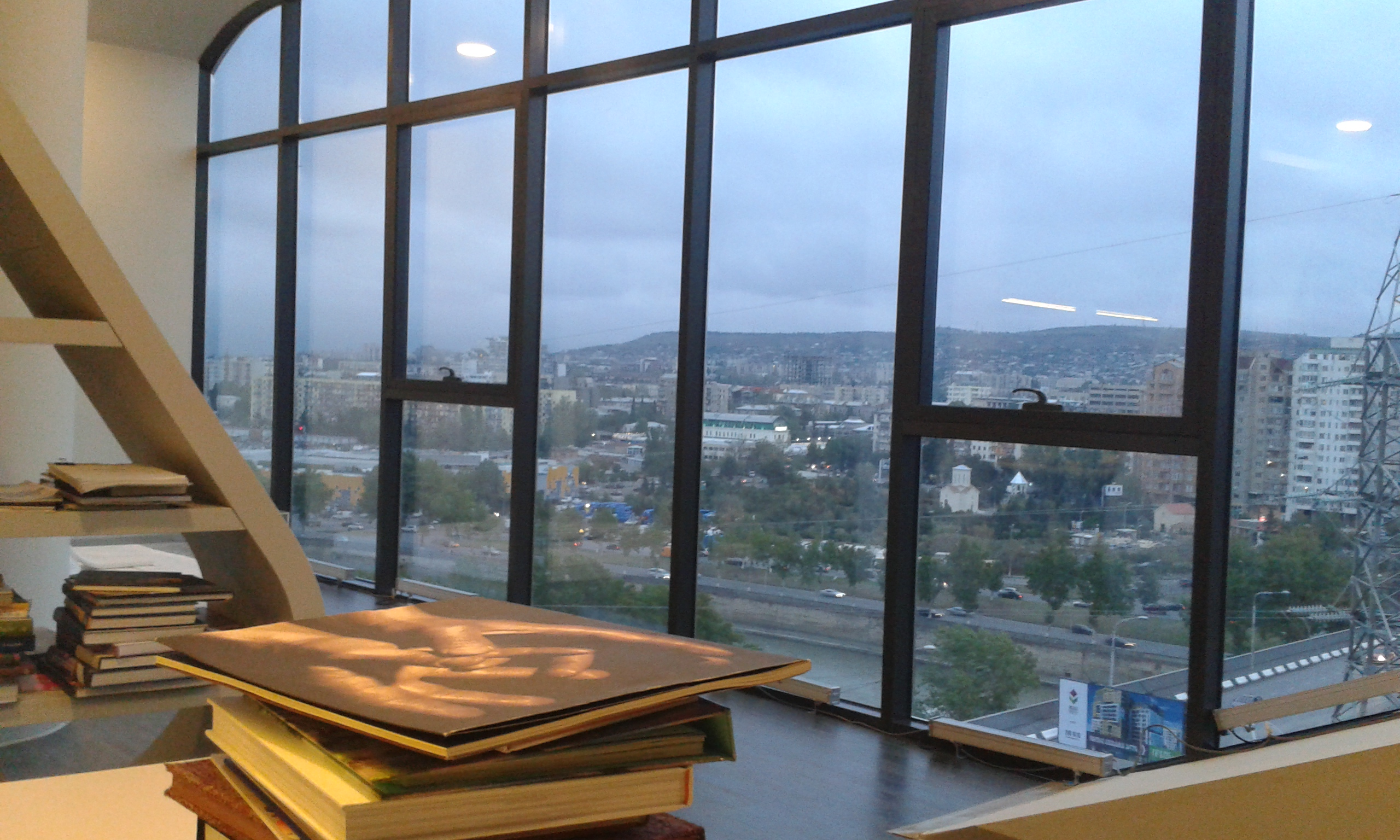 Tbilisi, Georgia — Saakashvili Presidential Library